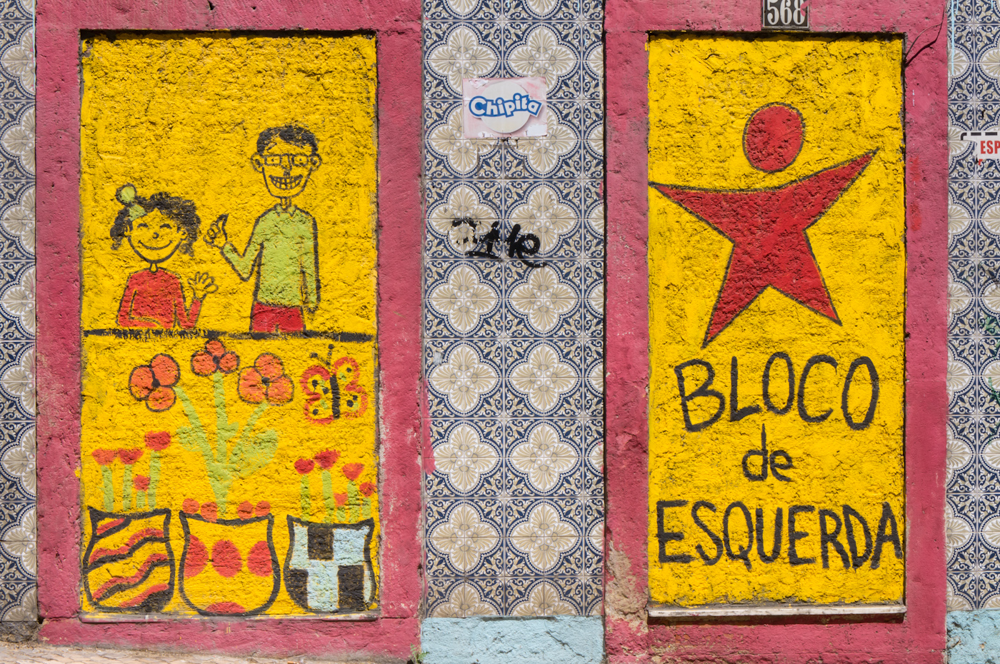 Political graffiti on empty house, R. São Bento 568, Lisbon, in 2012